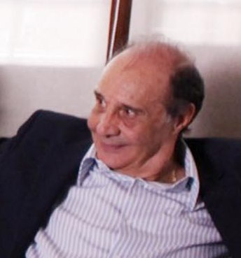 Brazilian former footballer and manager Procópio Cardoso.